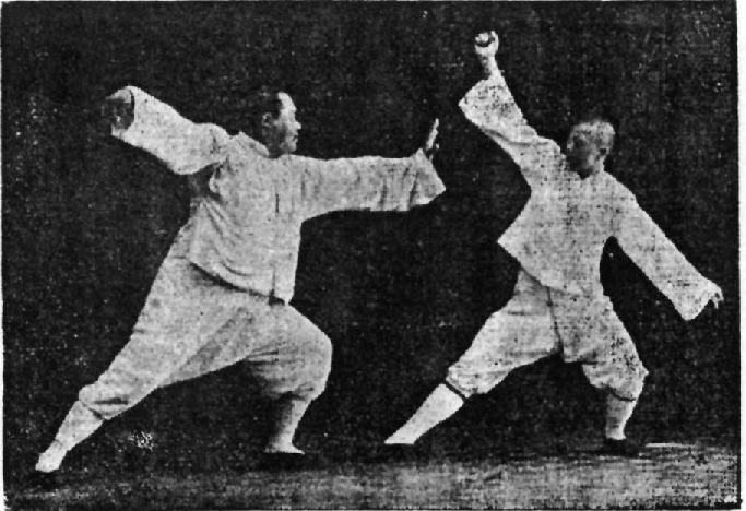 An application of single whip by Yang Chengfu from his 1931 book.